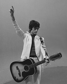 Michel Polnareff performing the songs Love me please love me and Ta ta ta on Dutch TV programme Fanclub, 14 March 1967